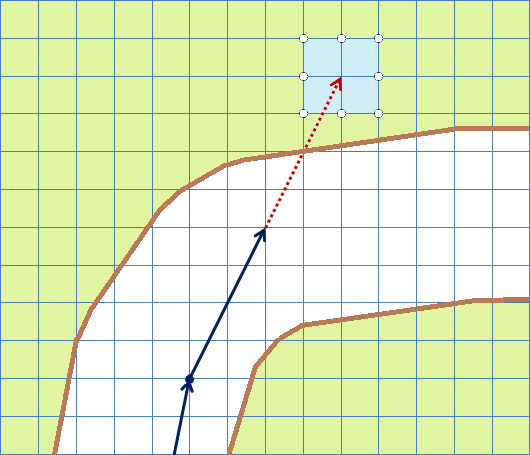 Escape from the track in racetrack game